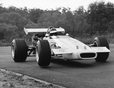 Elfin 600E F2 Bill Patterson Racing, driver Henk Woelders, Lakeside International Raceway Governors Trophy 1971 - Photo by Graham Ruckert